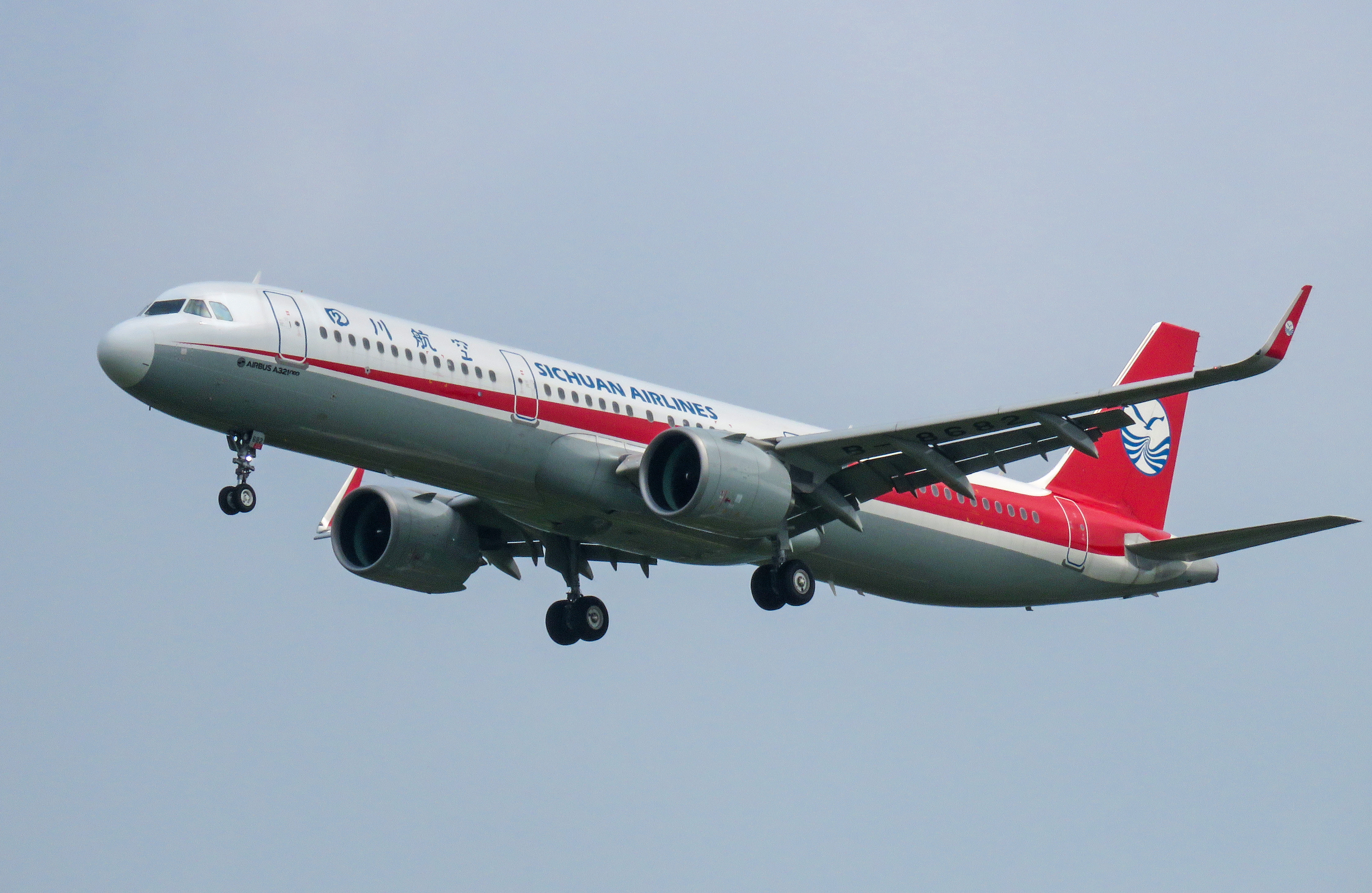 Sichuan 8885 from Chengdu. This flight is the target of an A350 rumour.